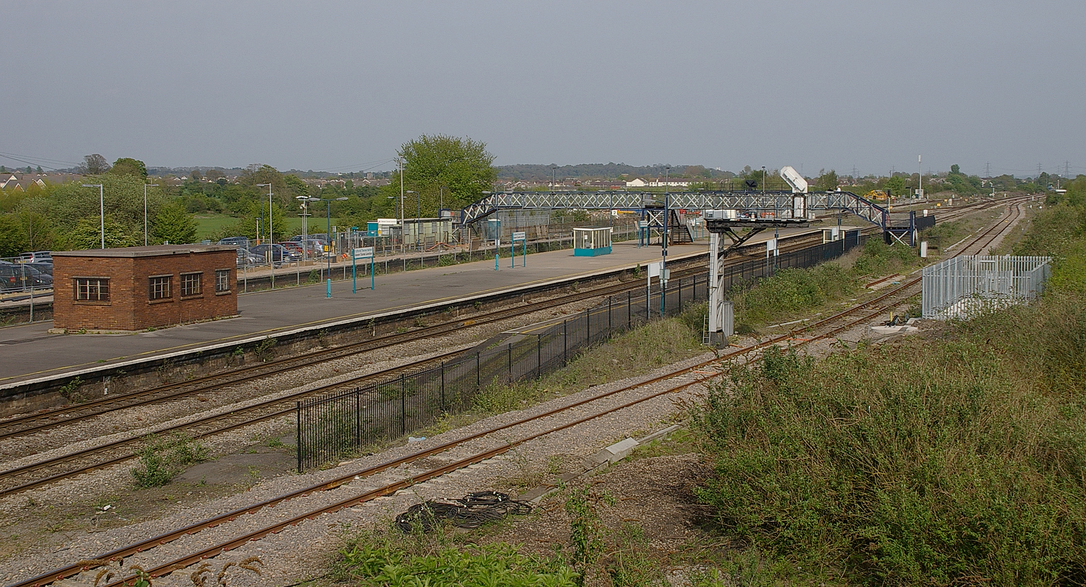 Severn Tunnel Junction railway station viewed from the road bridge.